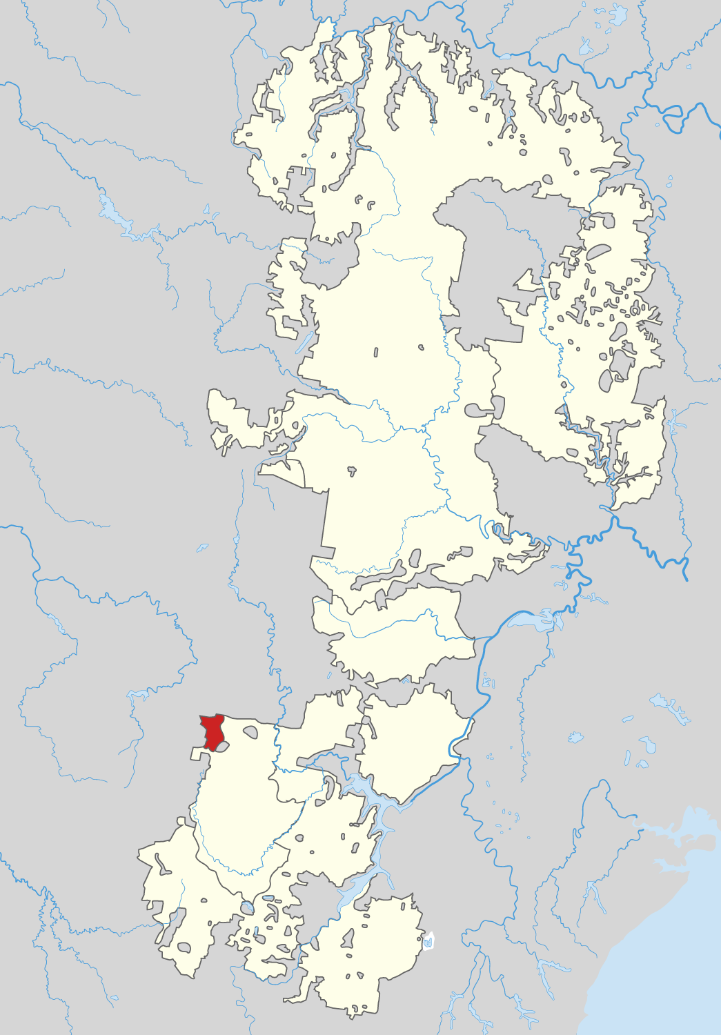 Lage des Jenolan Caves National-Park im Blue Mountains Weltnaturerbe.